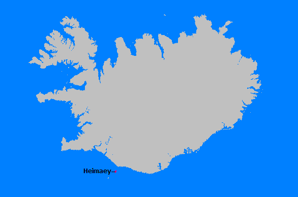 Heimaey off southwest Iceland.